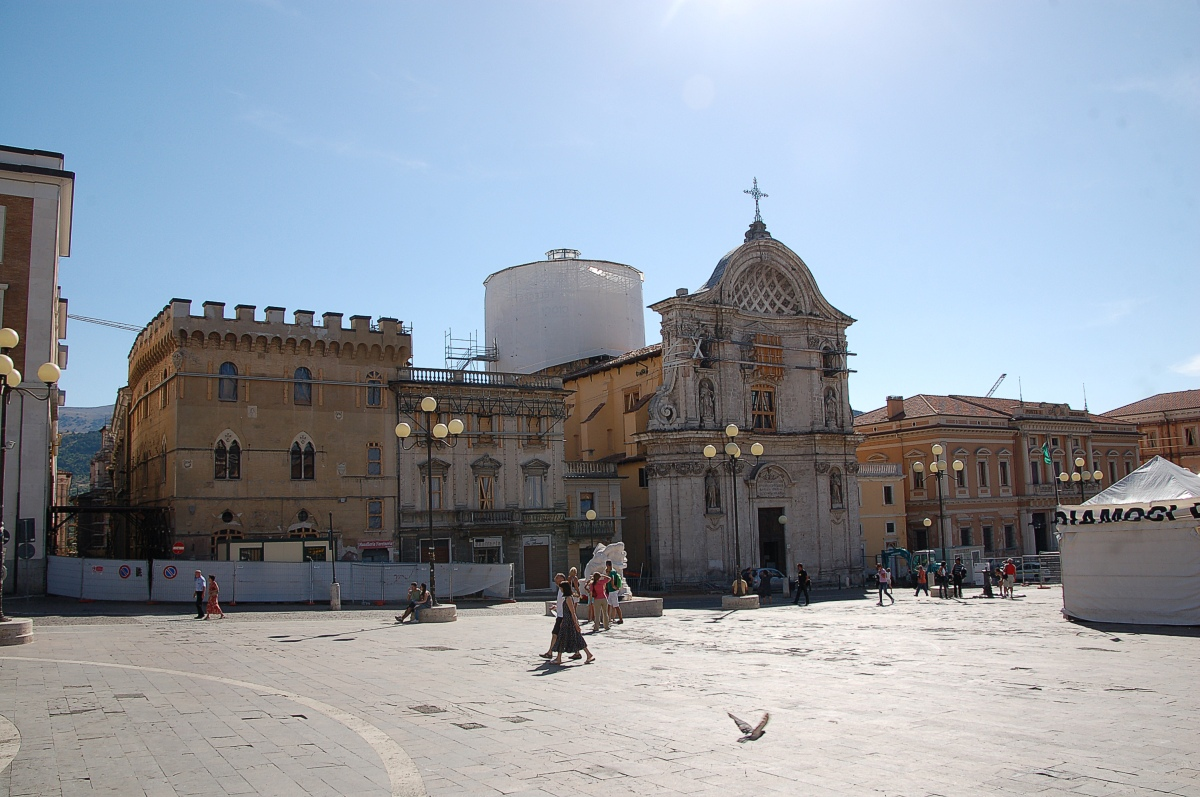 L'Aquila, Church of Holy Mary of the Suffrage (also called of the Holy Souls of Purgatory). 2010